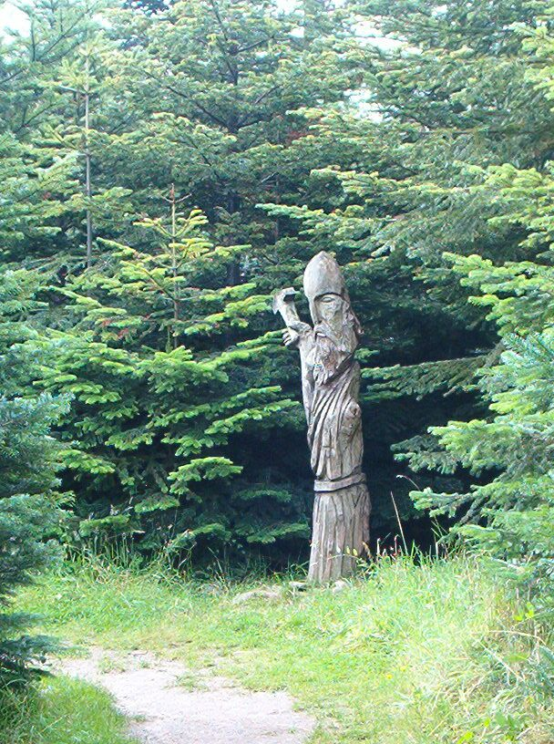 A statue of Thor in the maze on Samsø Source: Photo taken by Bruger:Palnatoke